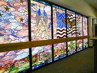 In order to pay lasting tribute to our Lindenhurst veterans and to help beautify Lindenhurst, the Trustees inaugurated a project to design and install Lexan-protected stained glass memorial windows on the library's Wellwood Avenue window wall.